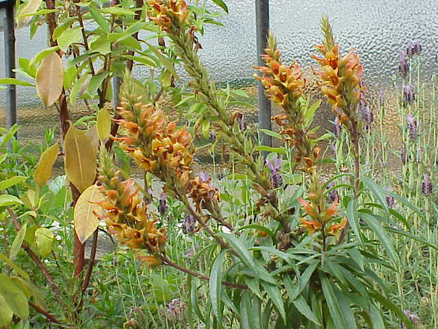 Species: Isoplexis isabelliana Family: Scrophulariaceae Image No. 4